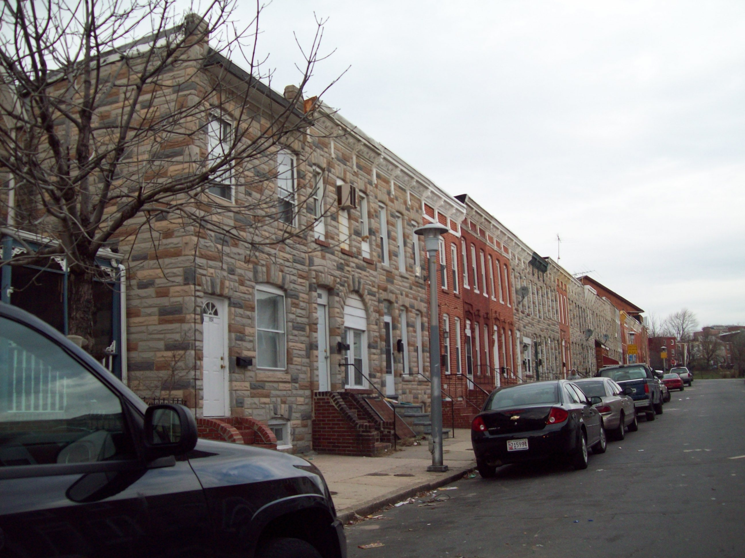 Pigtown Historic District, Baltimore, MD, December 2011